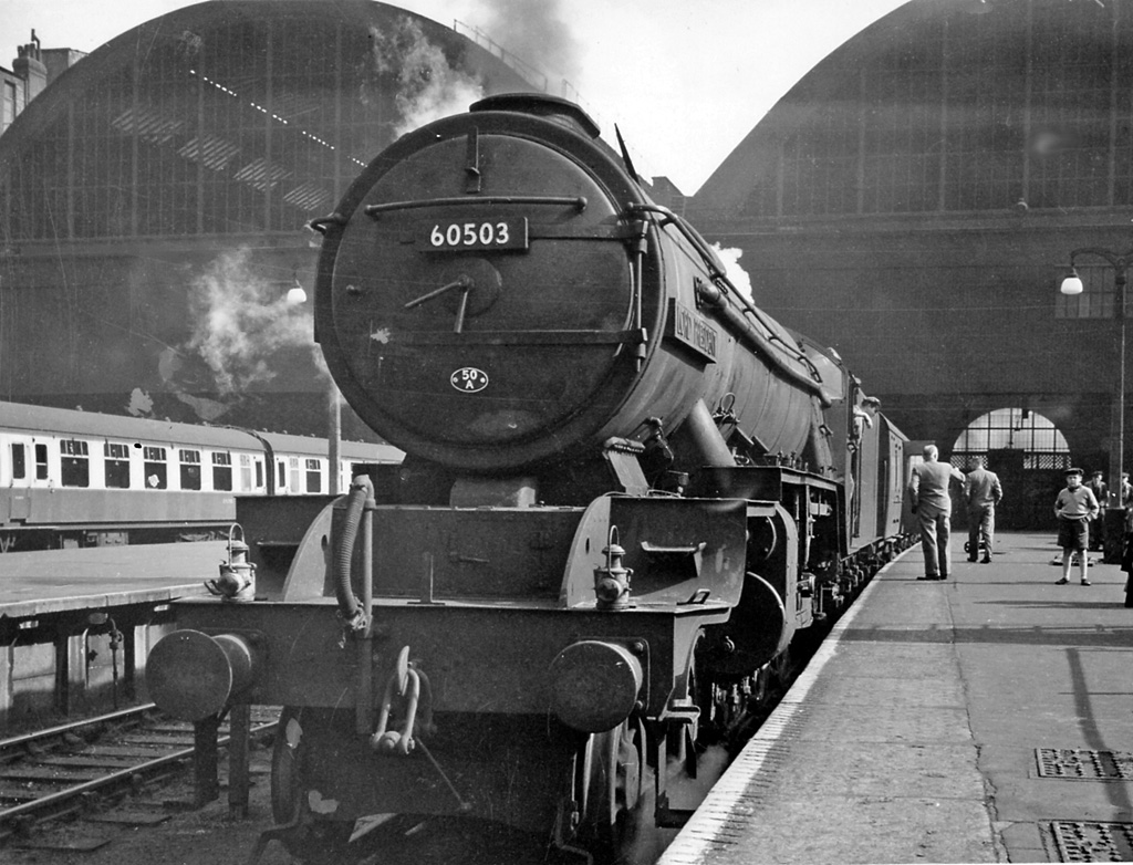 Newcastle express ready to leave King's Cross Station. View southward, towards the buffer-stops on Platform 7. A2/2 Pacific (rebuilt from a 2-8-2) No. 60503 'Lord President' - looking more healthy (cf. SE5703 : Line-up of steam at Doncaster Station in 1953 - is heading the 17.05 to Newcastle on Whit-Sunday evening, 1958.